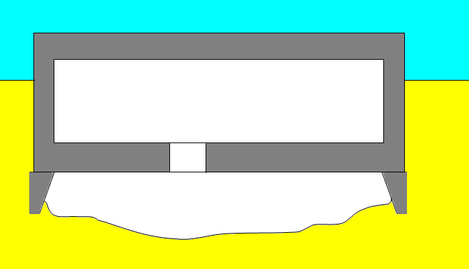 Diagram of a caisson during sinking.